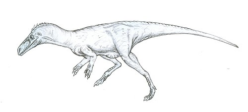 Dinosaur of the Triassic period